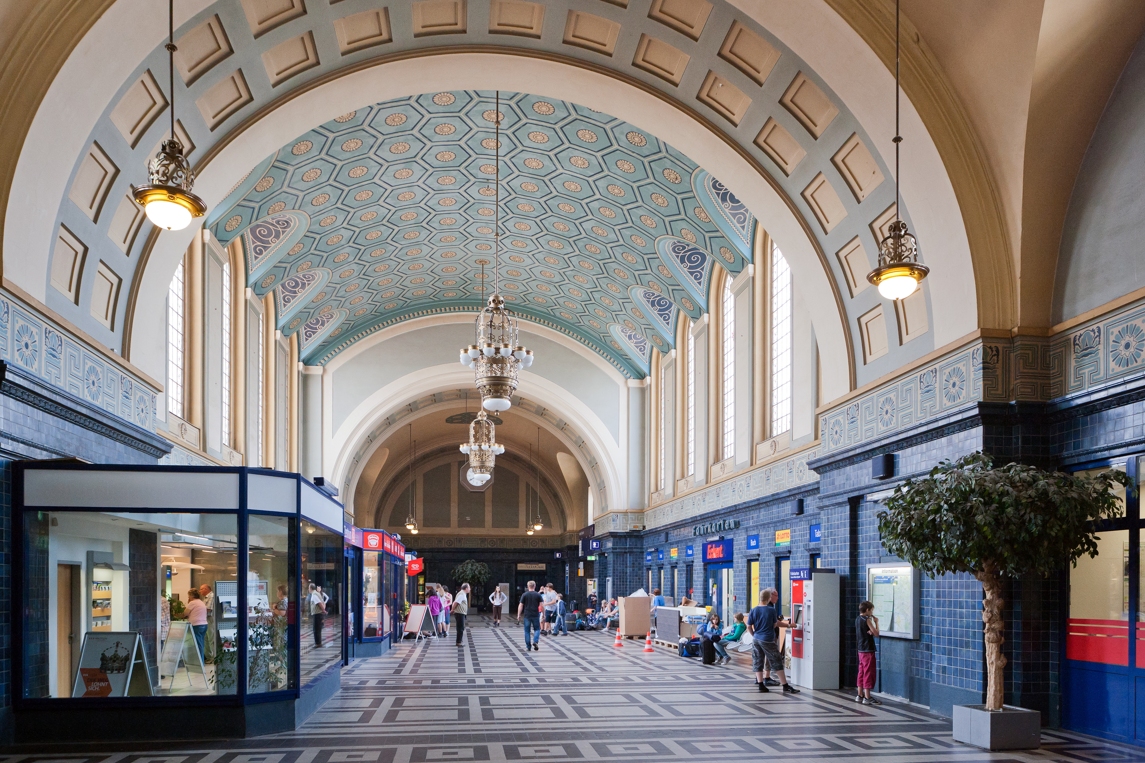 Görlitz: Railway Station, interior of the main hall of the reception building as seen from the west